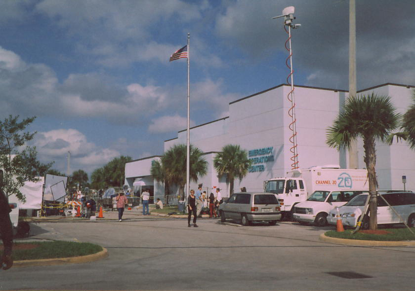 2000 presidential election recount in Palm Beach County